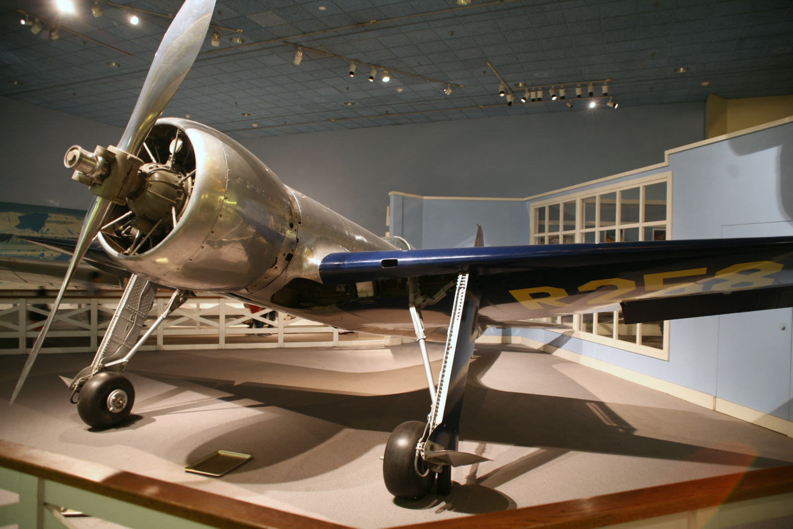 Manufacturer: Hughes Aircraft Co. Model: Hughes Aircraft Co. Country of Origin: United States of America Dimensions: 27 FT. 8 IN. Long 5,500 LBS. GROSS Weight 25 FT. Wing Span 31 FT. 9 IN. Wing Span Physical Description: Experimental, single engine, monoplane for air racing; wood wings with blue paint; yellow markings; bare aluminum fuselage.Hughes H-1 Racer